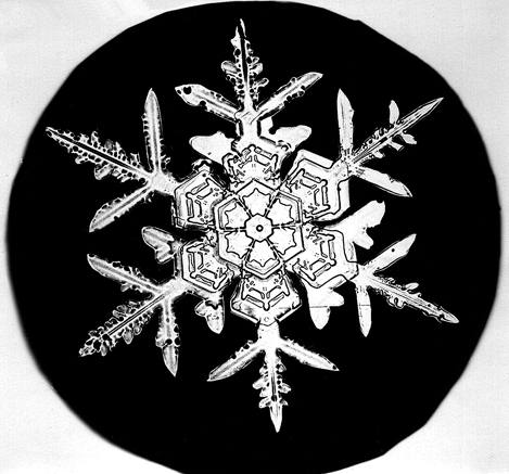 A picture of a Snow Crystal taken by Wilson Bentley, "The Snowflake Man."